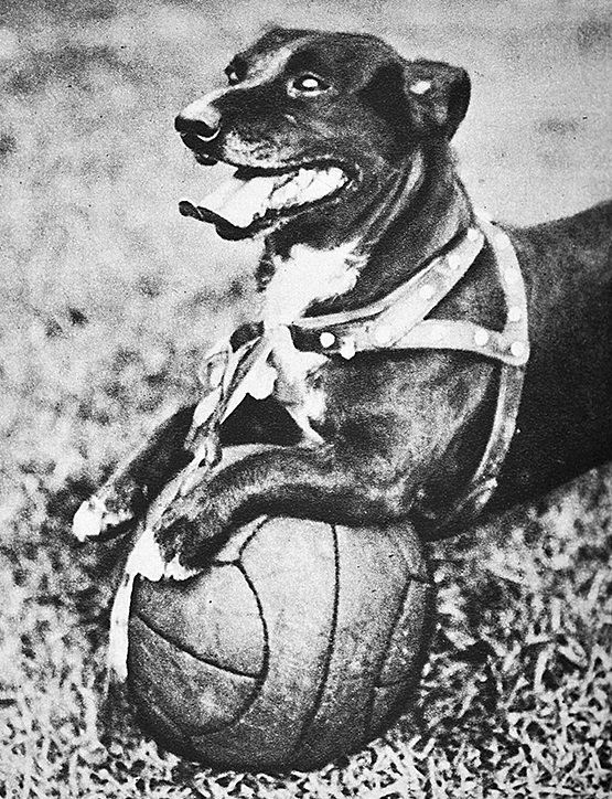 Napoleón, the footballer dog of Argentine C.A. Atlanta team.